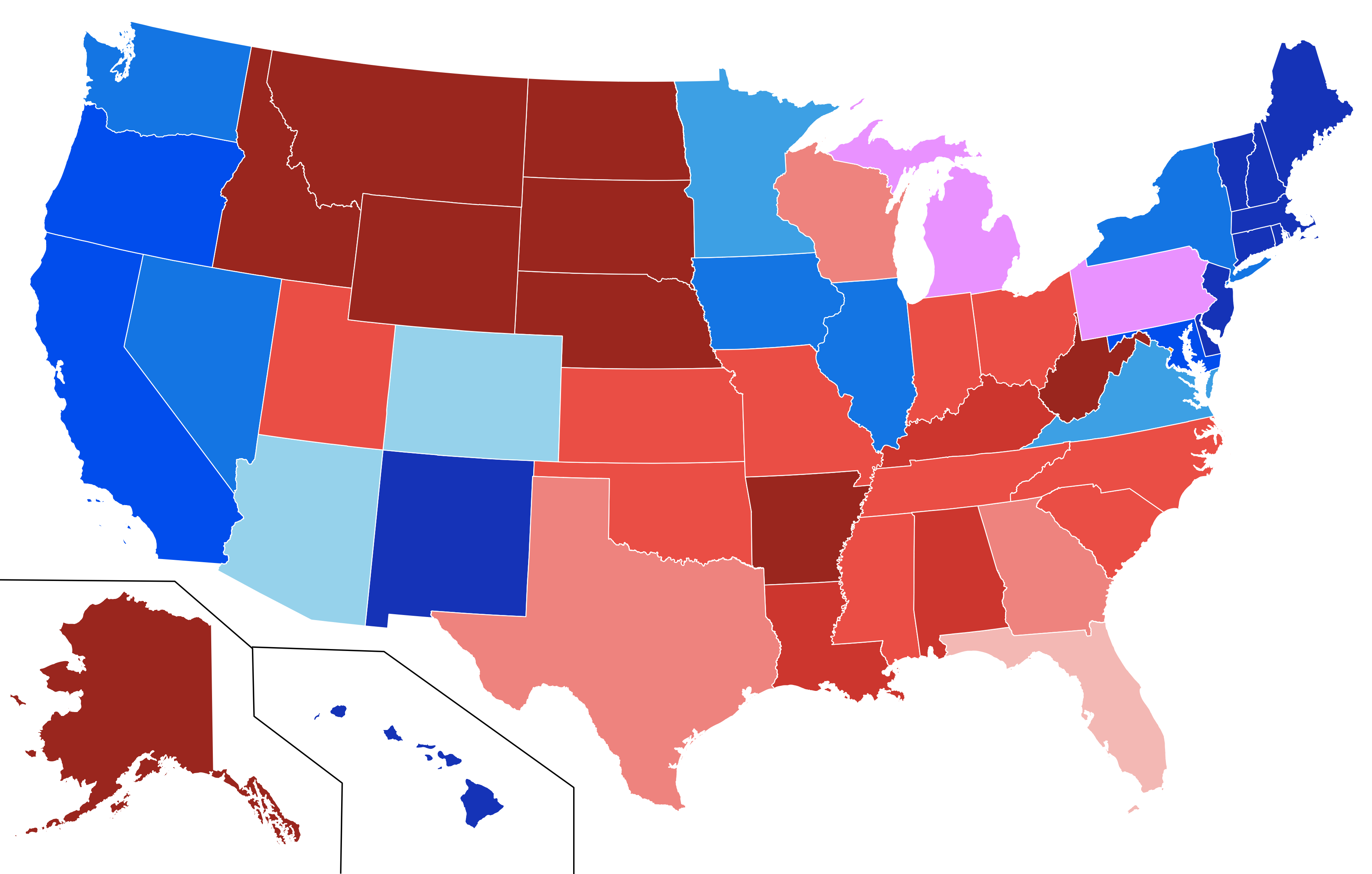 House votes by party holding plurality in state. Democratic 100% 80-99% 70-79% 60-69% 51-59% 50% Republican 100% 80-99% 70-79% 60-69% 51-59% 50%